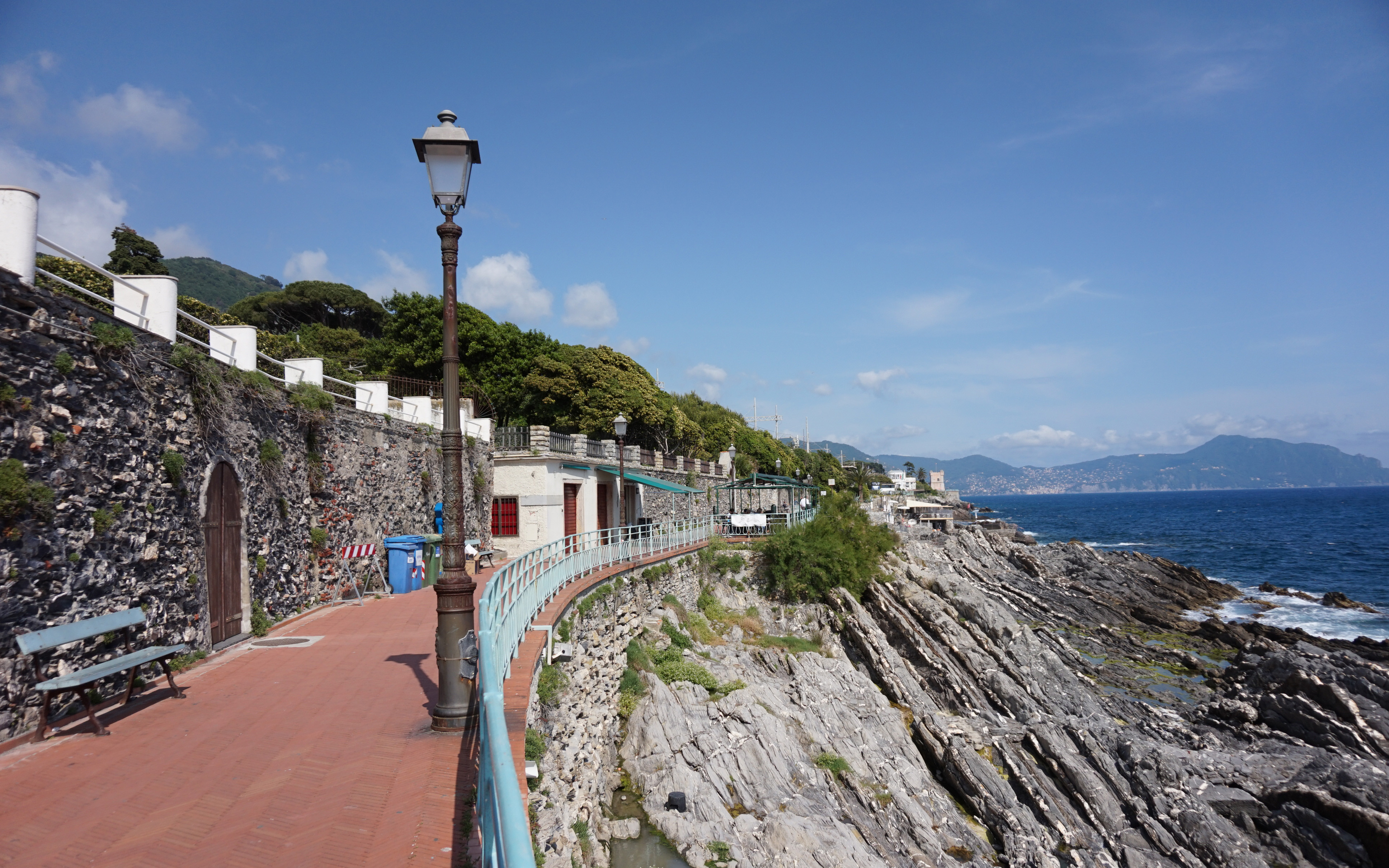 Cliff and the street Passeggiata Anita Garibaldi, Nervi. This photograph was taken with a Sony Alpha a5000.